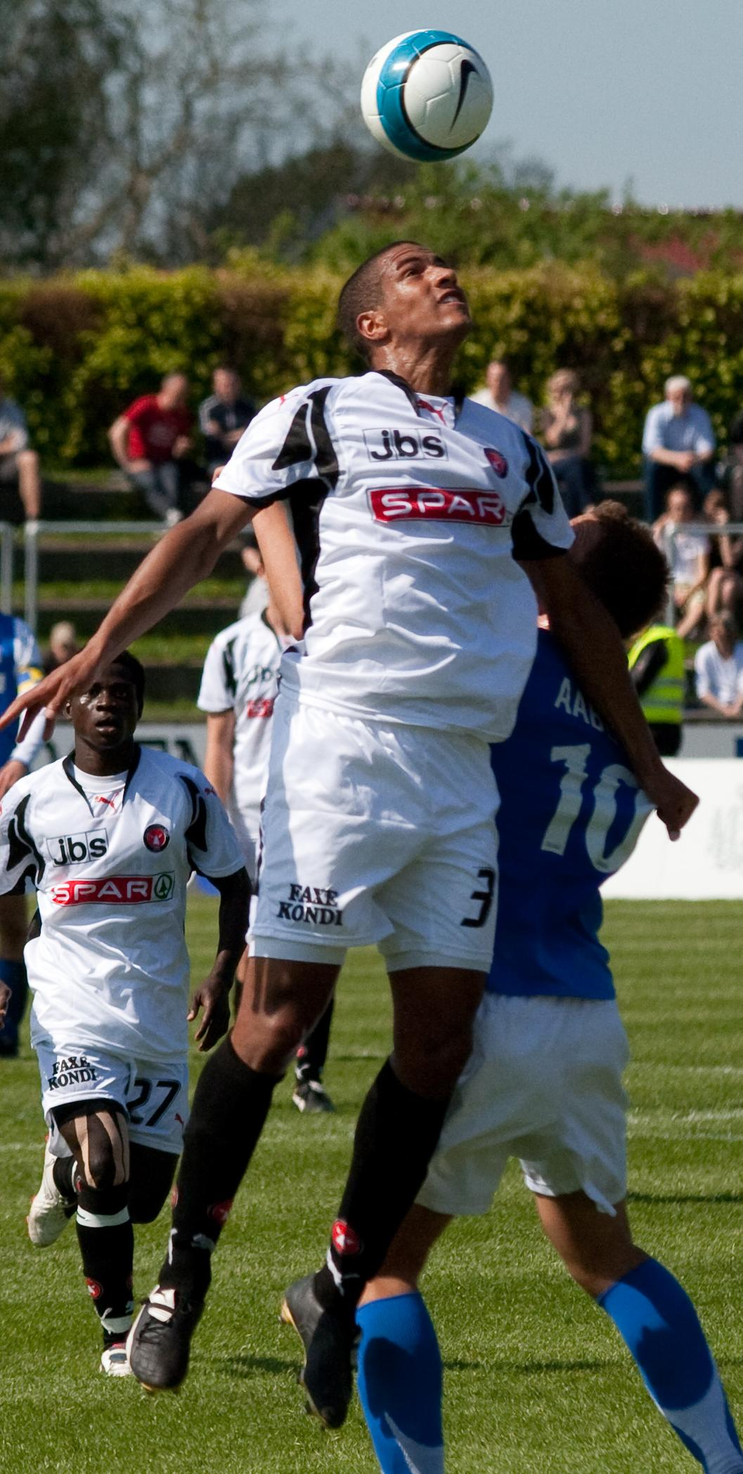 Kolja Afriyie playing for FC Midtjylland against Lyngby Boldklub.